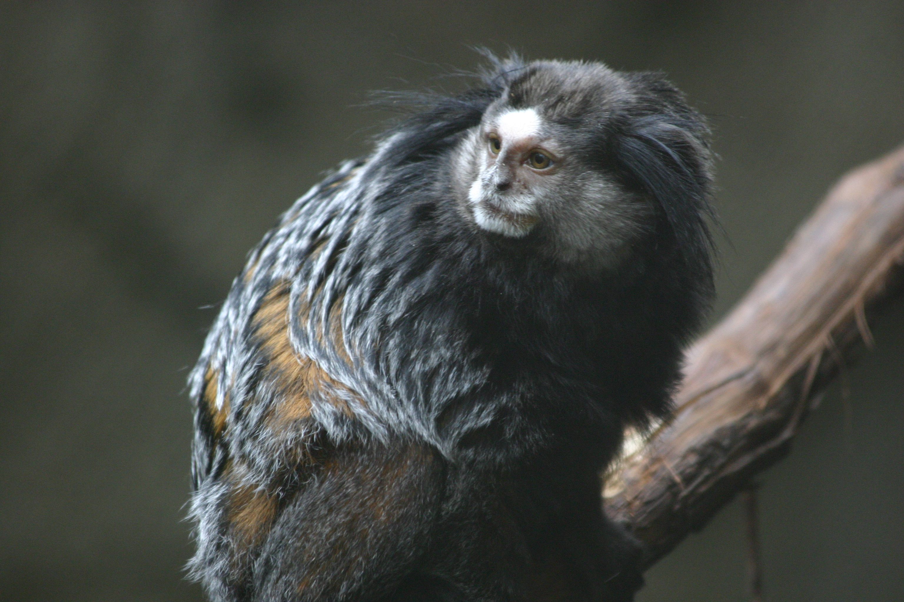 This is a Wied's Marmoset (aka Wied's Black-tufted-ear Marmoset), Callithrix kuhlii, at Des Moines's Blank Park Zoo. Taken with a Canon Digital Rebel and a Canon 70-300/4-5.6 IS USM.